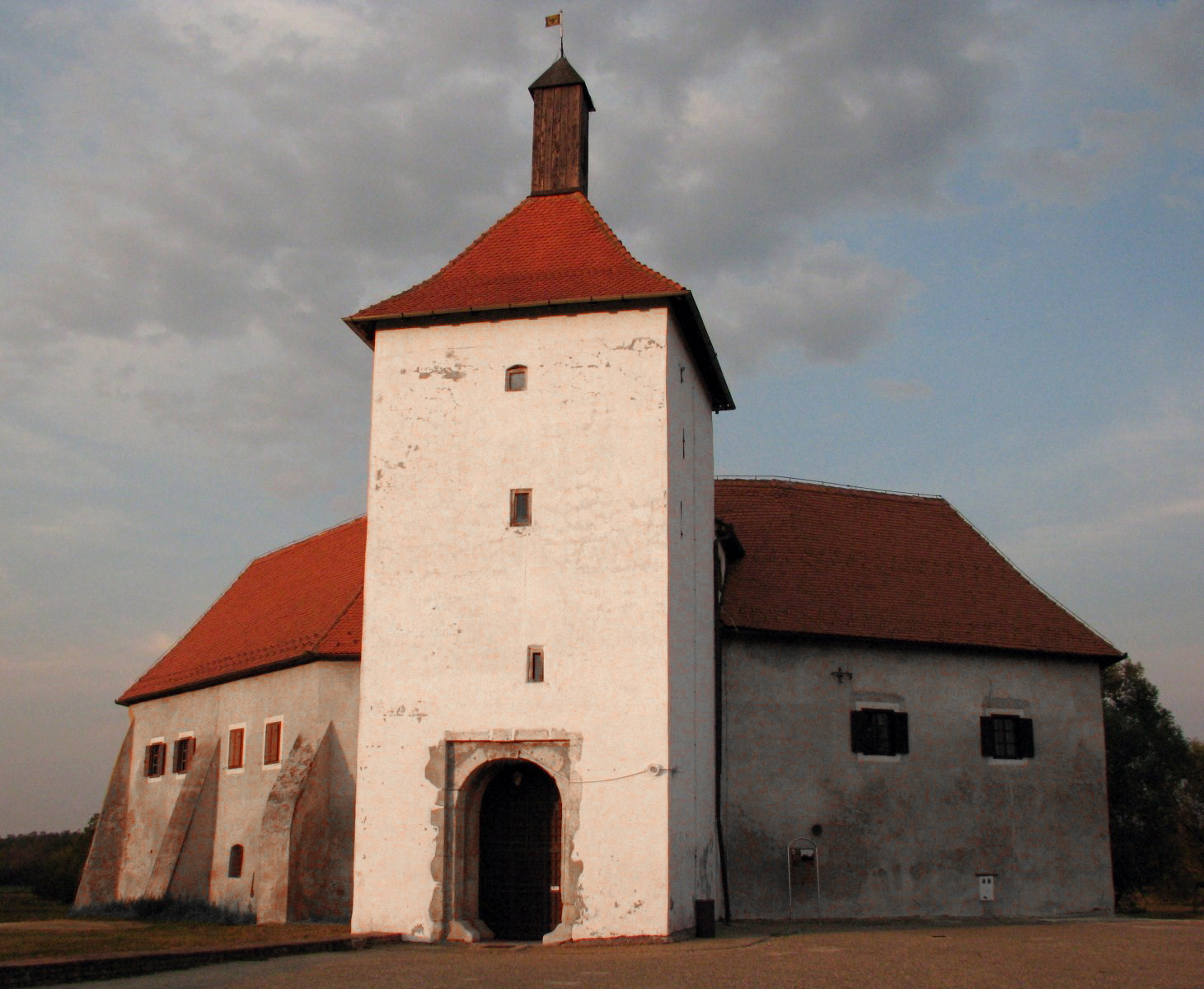 Old Town of Đurđevac, Croatia